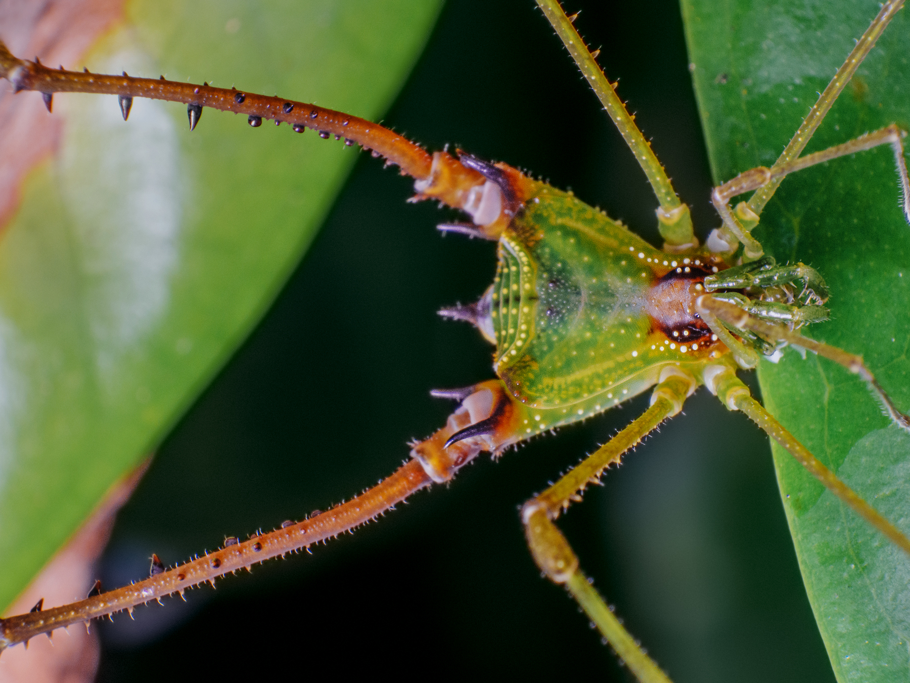 Dorsal view of a green gonyleptid harvestman (Gonyleptidae, Iguapeia sp.) from the atlantic forest (rainforest) of Salto Morato reserve, Paraná, Brazil.